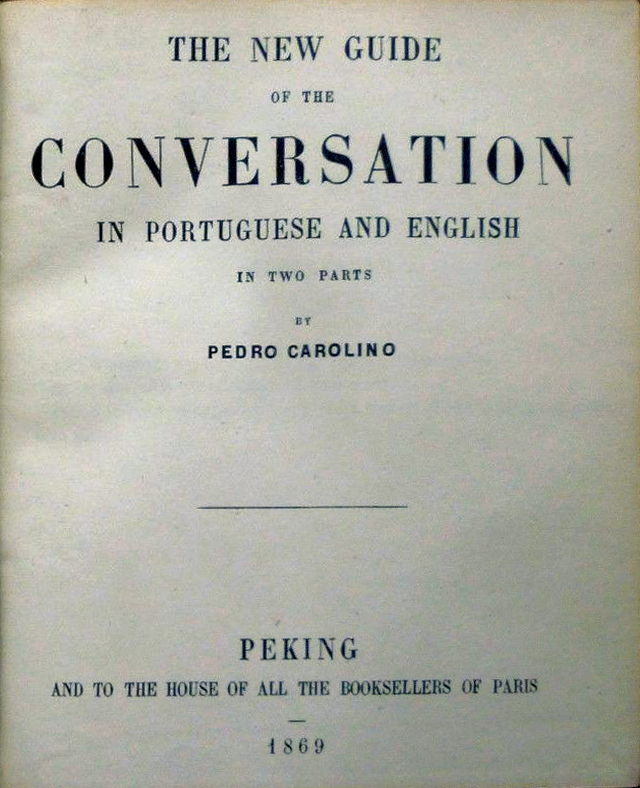 Title page